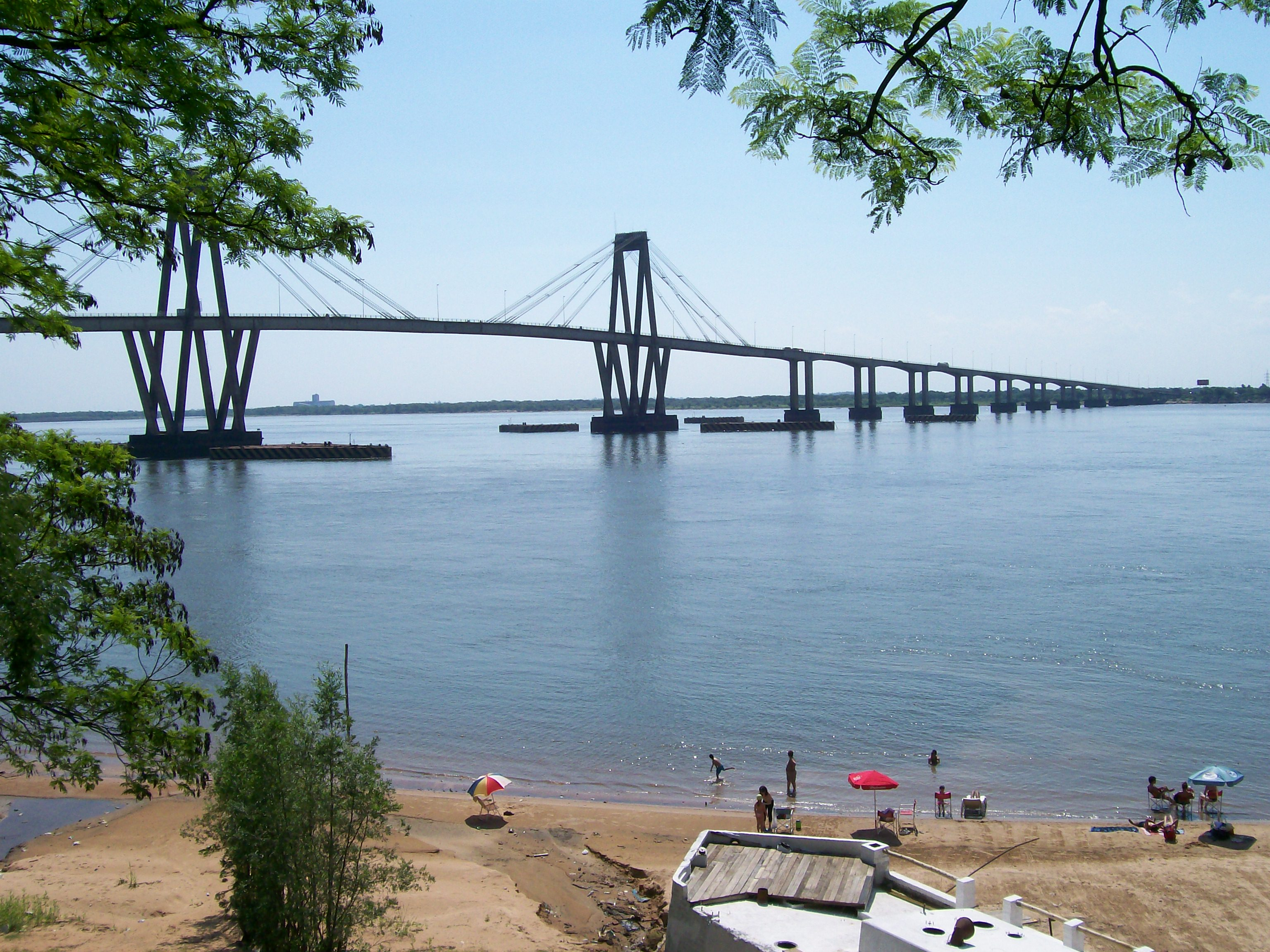 General Manuel Belgrano Bridge spans Paraná river and connect Corrientes and Chaco province in Argentina. This photo is taken from Corrientes city, and you can see a beach by Paraná river. The far big building is a silo in Barranqueras city, Chaco province